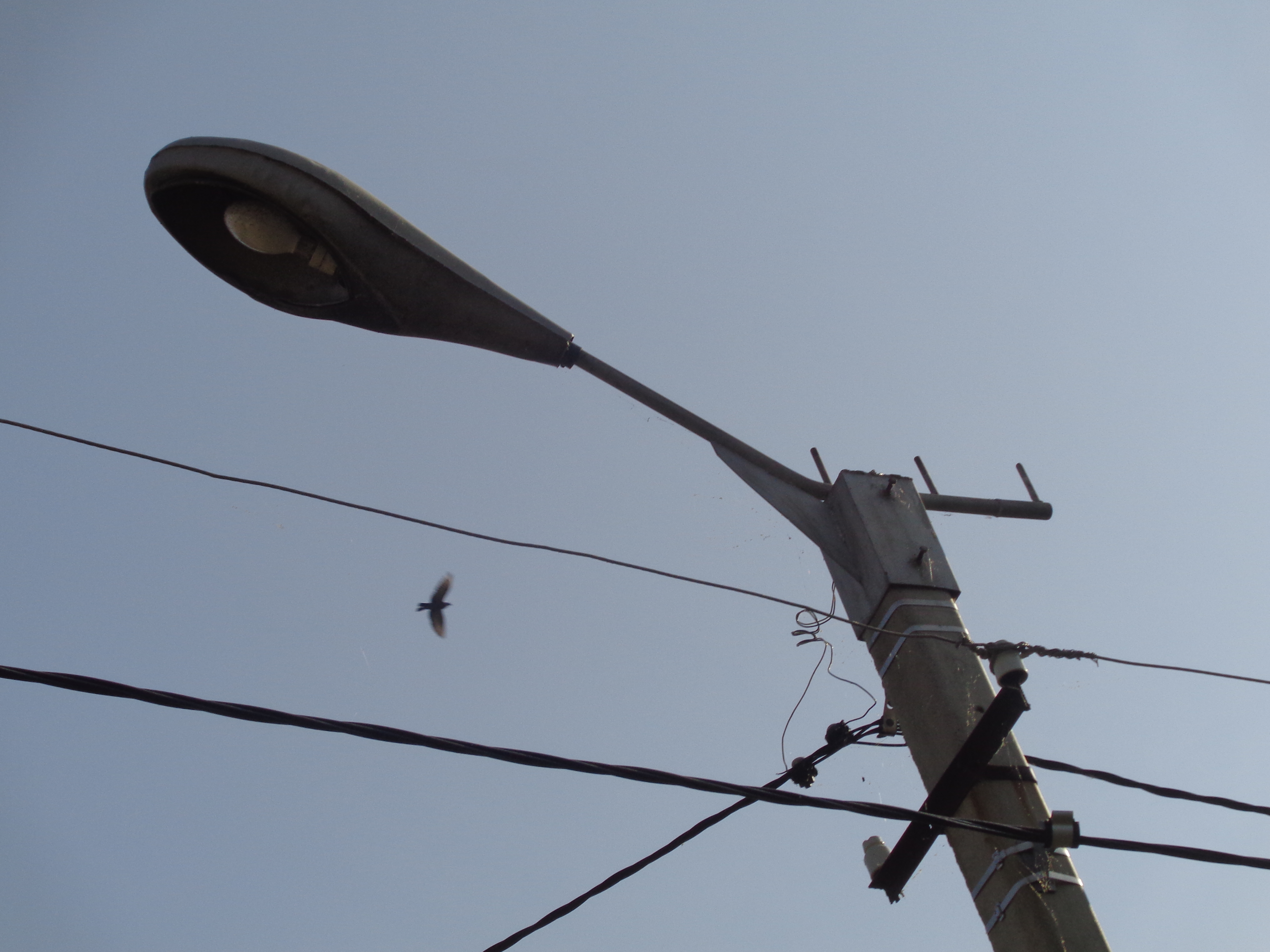 Aluminum soviet street lighting lantern